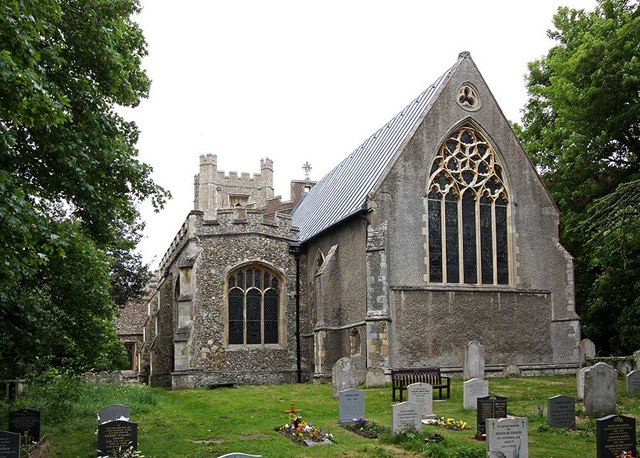 St Mary the Virgin, Great Dunmow, Essex